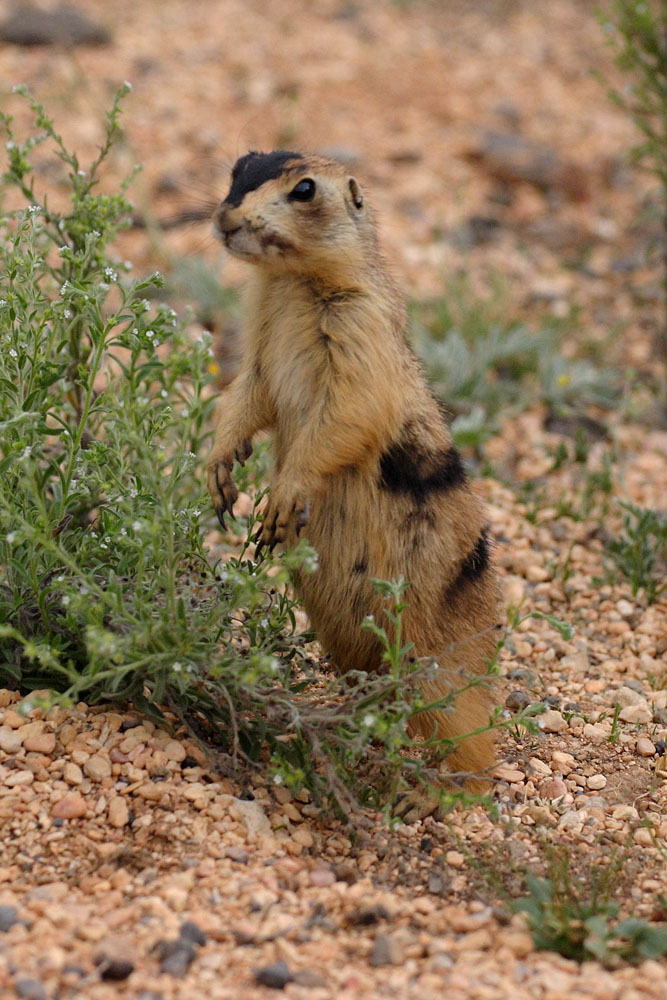 Utah Prairie Dog (Cynomys parvidens) - Bryce Canyon National Park